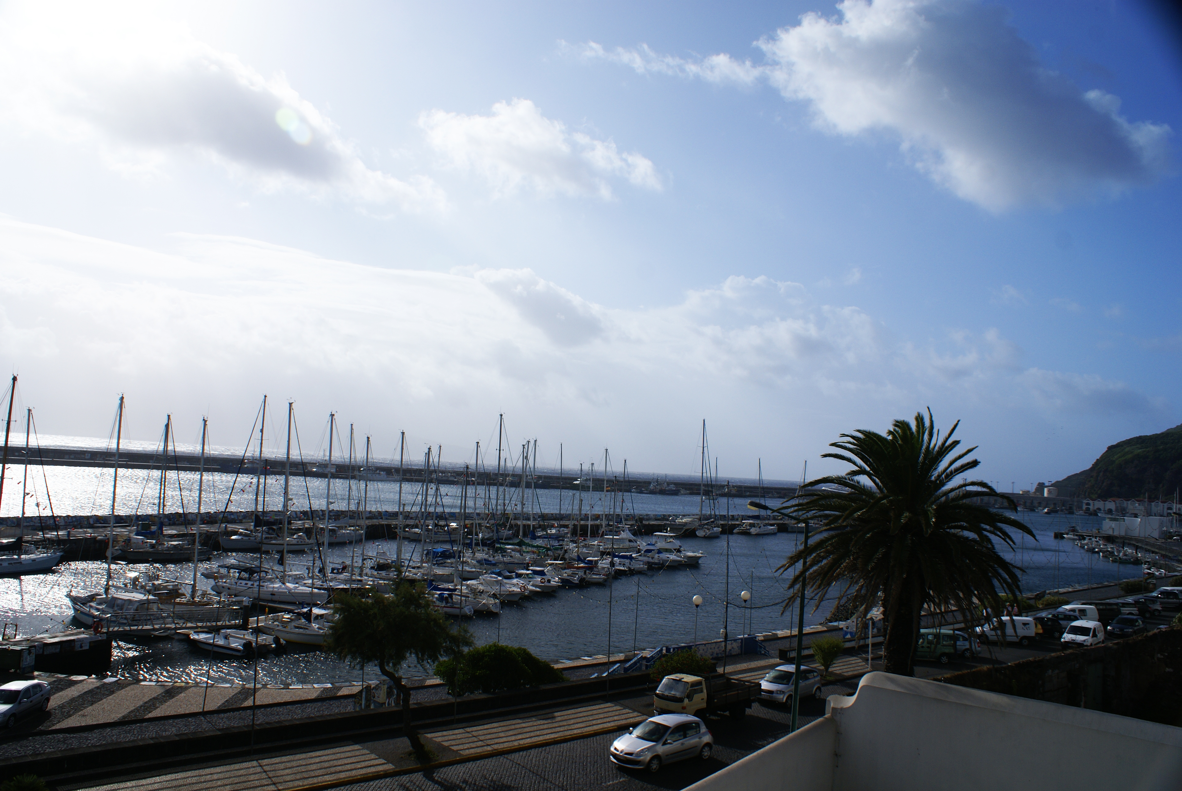 Marina da Horta, aspectos, Concelho da Horta, ilha do Faial, Açores, Portugal